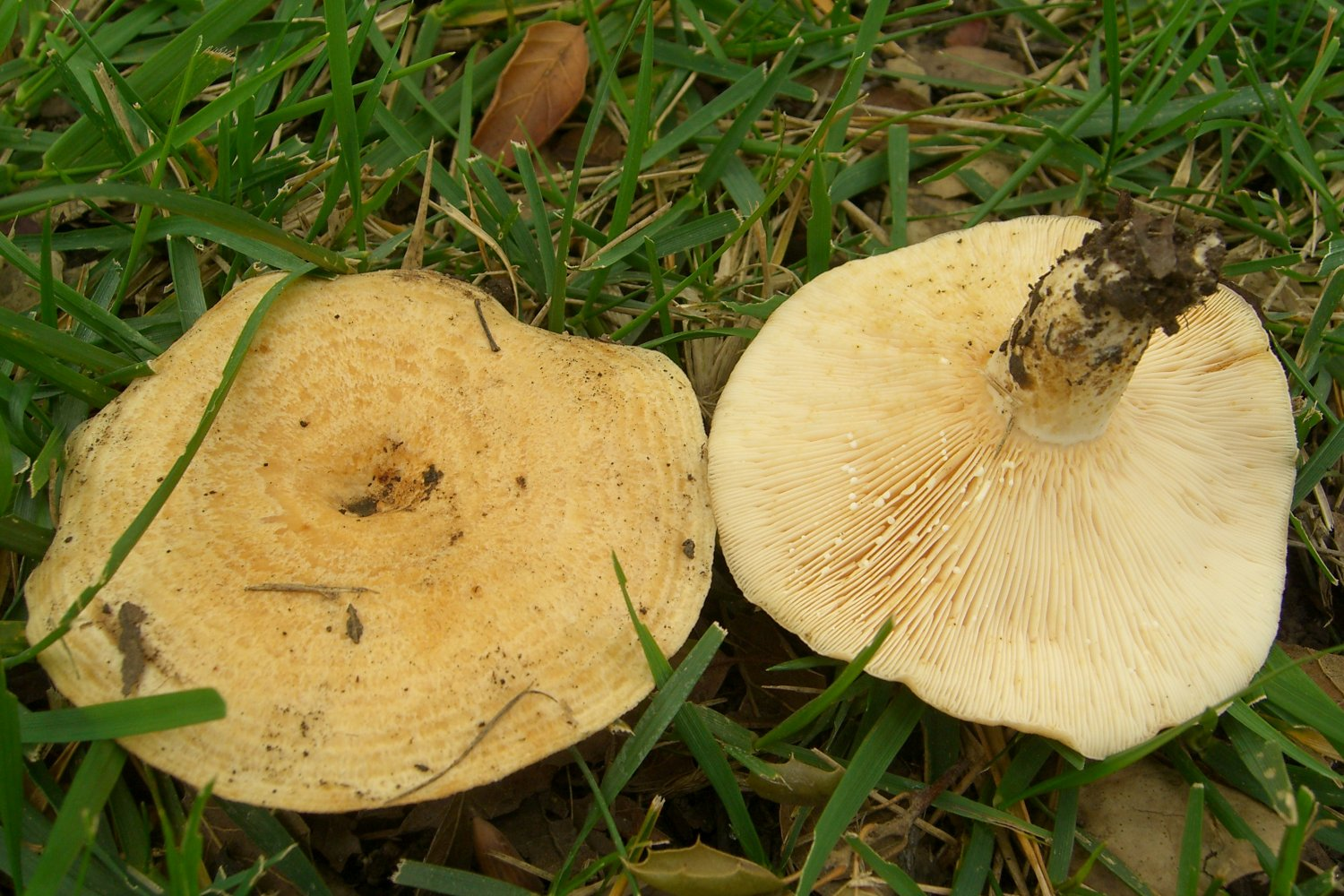 The mushroom Lactarius alnicola A.H. Sm. Specimen photographed in Madison Heights, Pasadena, Los Angeles Co., California, USA.